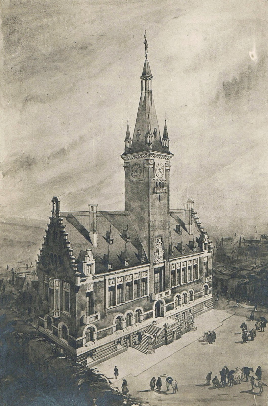 watercolor by french architect Alexandre Miniac, 1930, anonymus photograph.